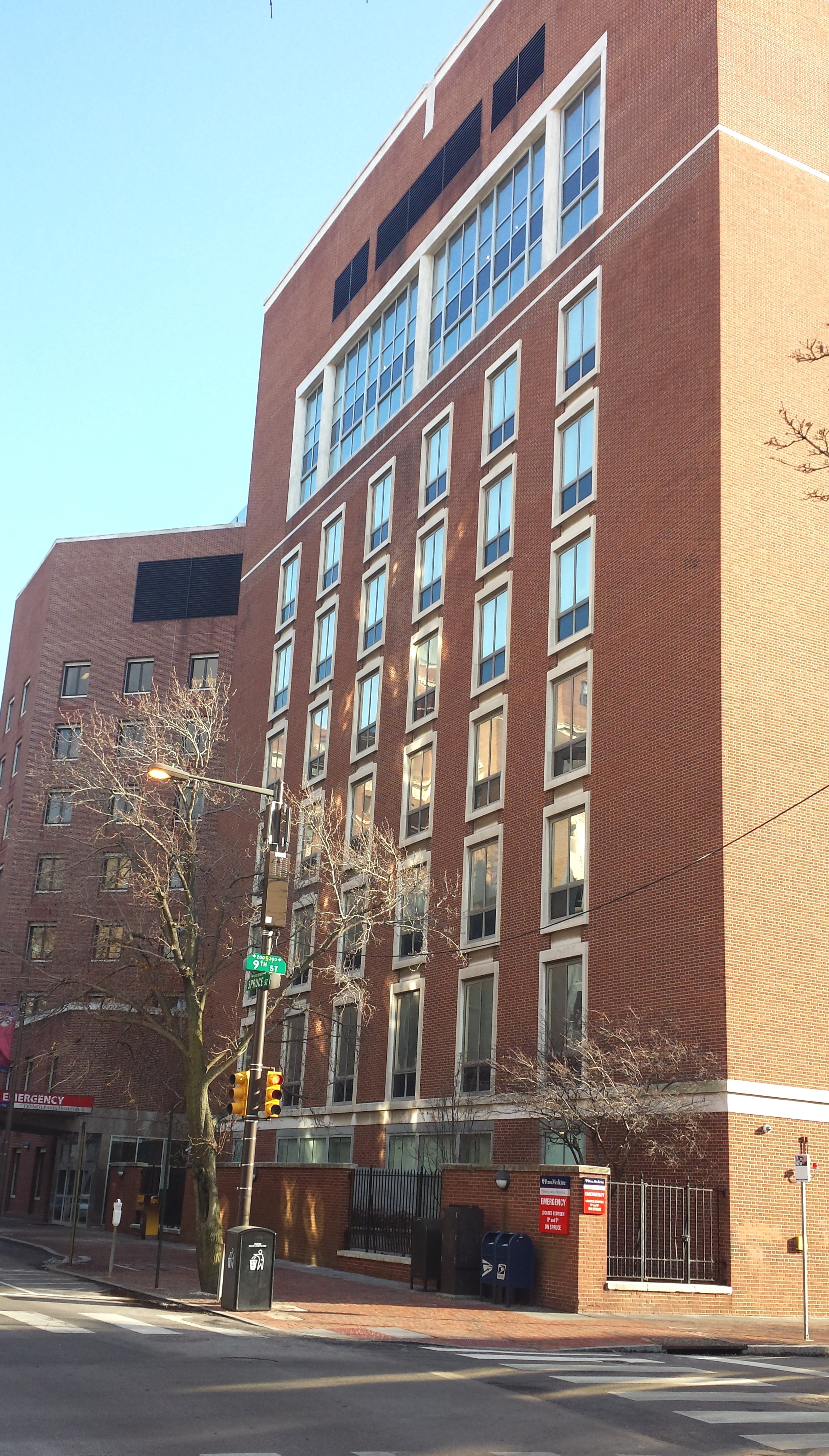 This is a photograph of the emergency room entrance at Pennsylvania Hospital, as seen from 9th and Spruce in Philadelphia.